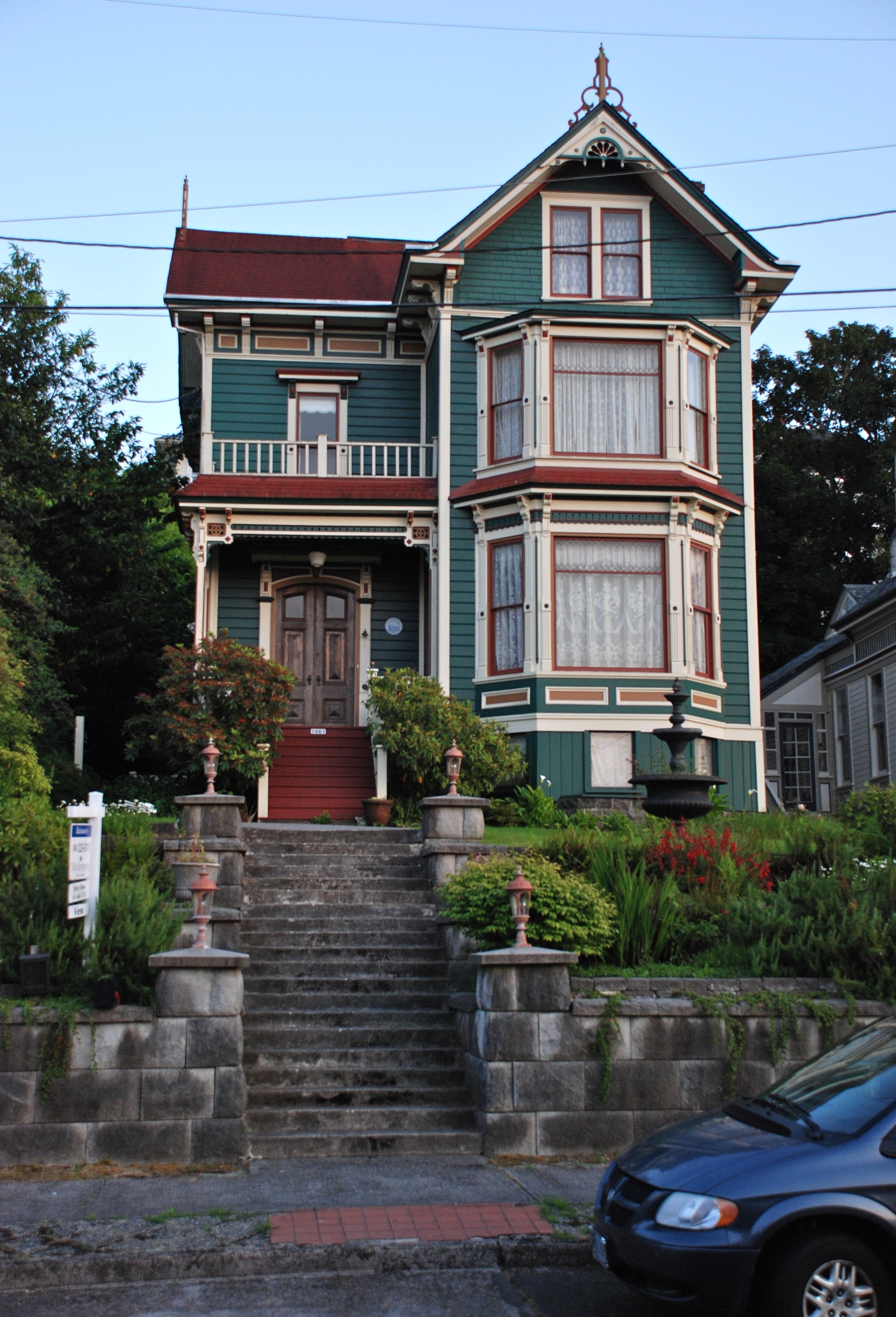 The Albert W. Ferguson House (built in 1886), in Astoria, Oregon, is listed on the U.S. National Register of Historic Places. This view shows the front (north side).